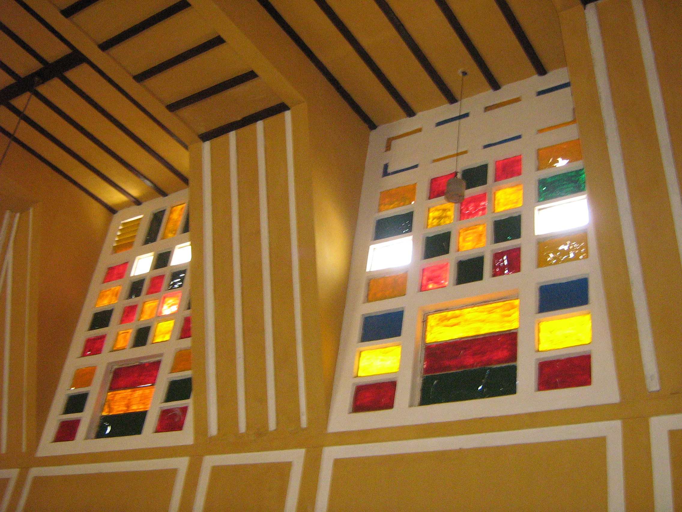 Coloured-glass windows at Dalat train station.